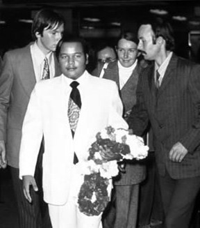 Prem Rawat (Guru Maahraj Ji) arriving in France on July 14, 1971